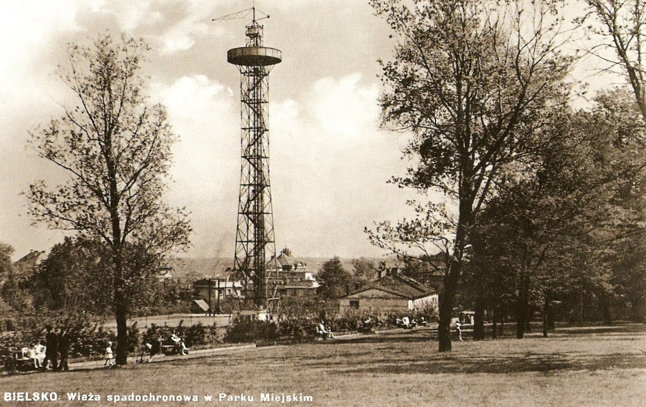 Parachute tower in Bielsko-Biała in 1938 (built in 1938, destroyed in 1939)